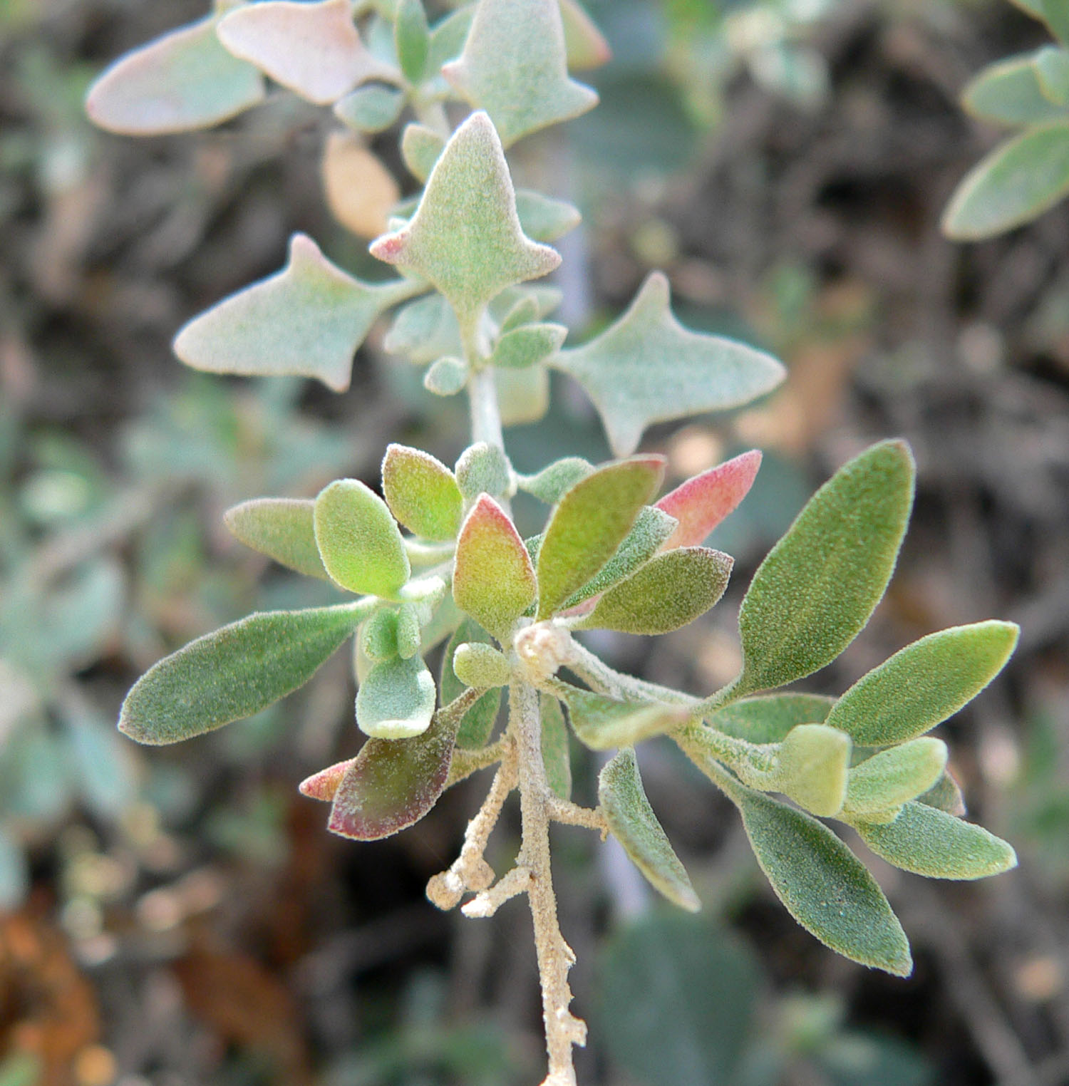 Chenopodium spinescens (Syn. Rhagodia spinescens) at the Springs Preserve garden, Las Vegas, Nevada